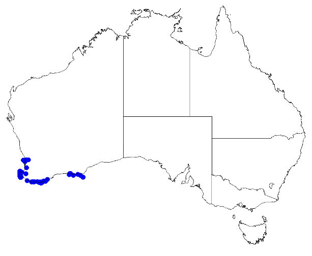 Boronia alata occurrence data downloaded from Australasian Virtual Herbarium 10 April 2019 using This download included all the environmental overlay fields and ALA's data checking fields (over 600 fields) including "cultivated / escapee", "outside expert range for species", "latitude is negated", "coordinates are transposed", "taxon misidentified", "habitat incorrect for species", and "suspected outlier". Deleting occurrences for which any of the above were true, 46 specimens with coordinates were deleted. However this did not remove all obvious spatial outliers which were later removed by hand...